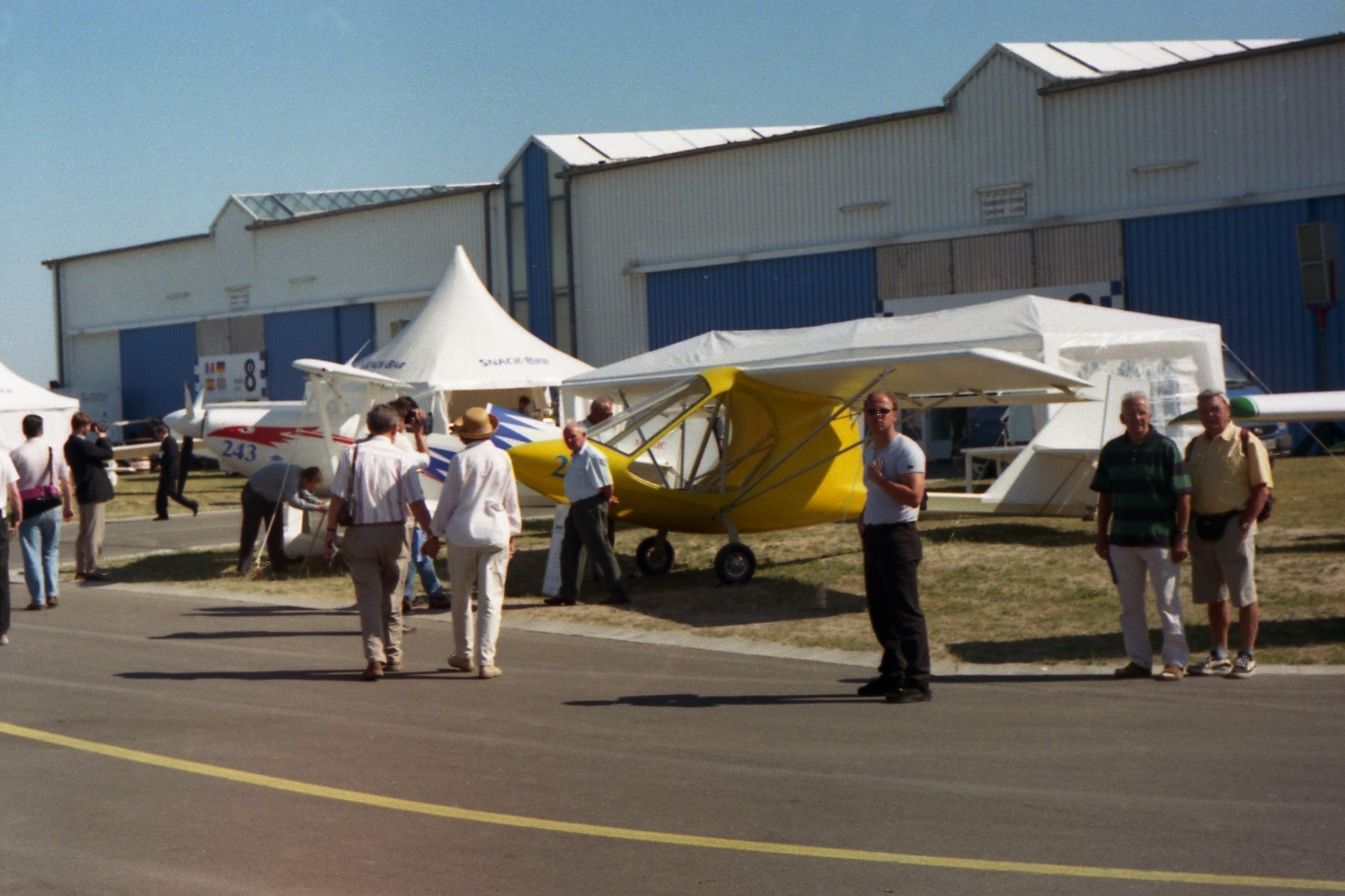 DEKO -6 Whisper on air exhibition in Berlin ILA 2000.